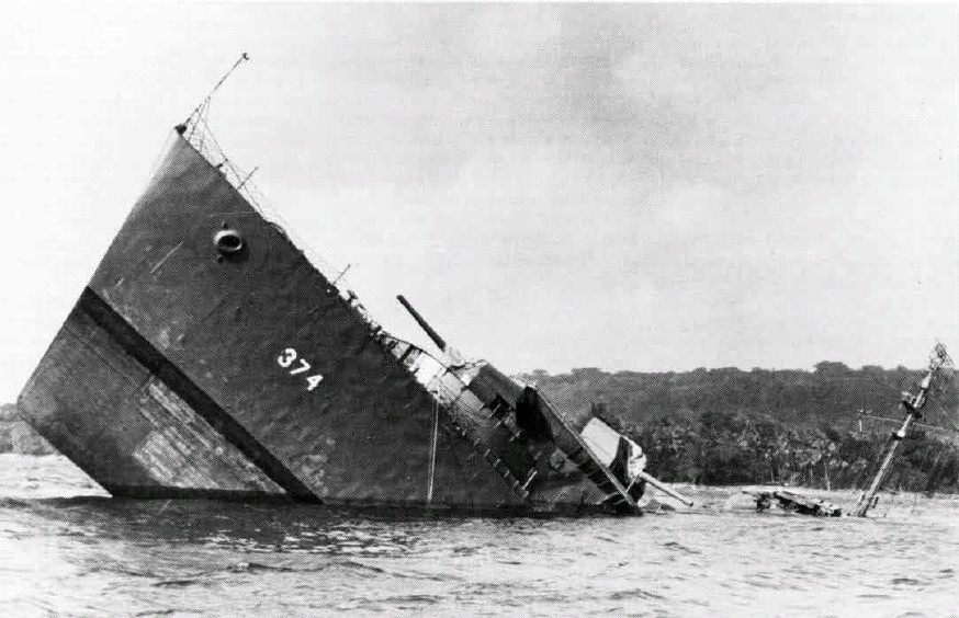 The U.S. Navy destroyer USS Tucker (DD-374) sunk at Bruat channel between Aore and Malo Island, south of Espiritu Santo, on 5 August 1942. Tucker struck a mine in an own defensive minefield on 21:45 hrs, 3 August 1942. The mine broke her back and Tucker jack-knifed and sank in 10 fathoms at 04:45 hrs on 4 August 1942. The minefield had been laid only the day before. Three men were killed in the mine explosion.